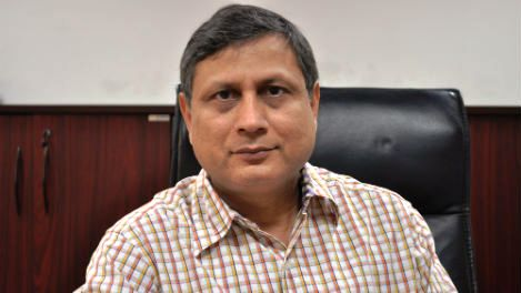 Clicked at IISER Bhopal